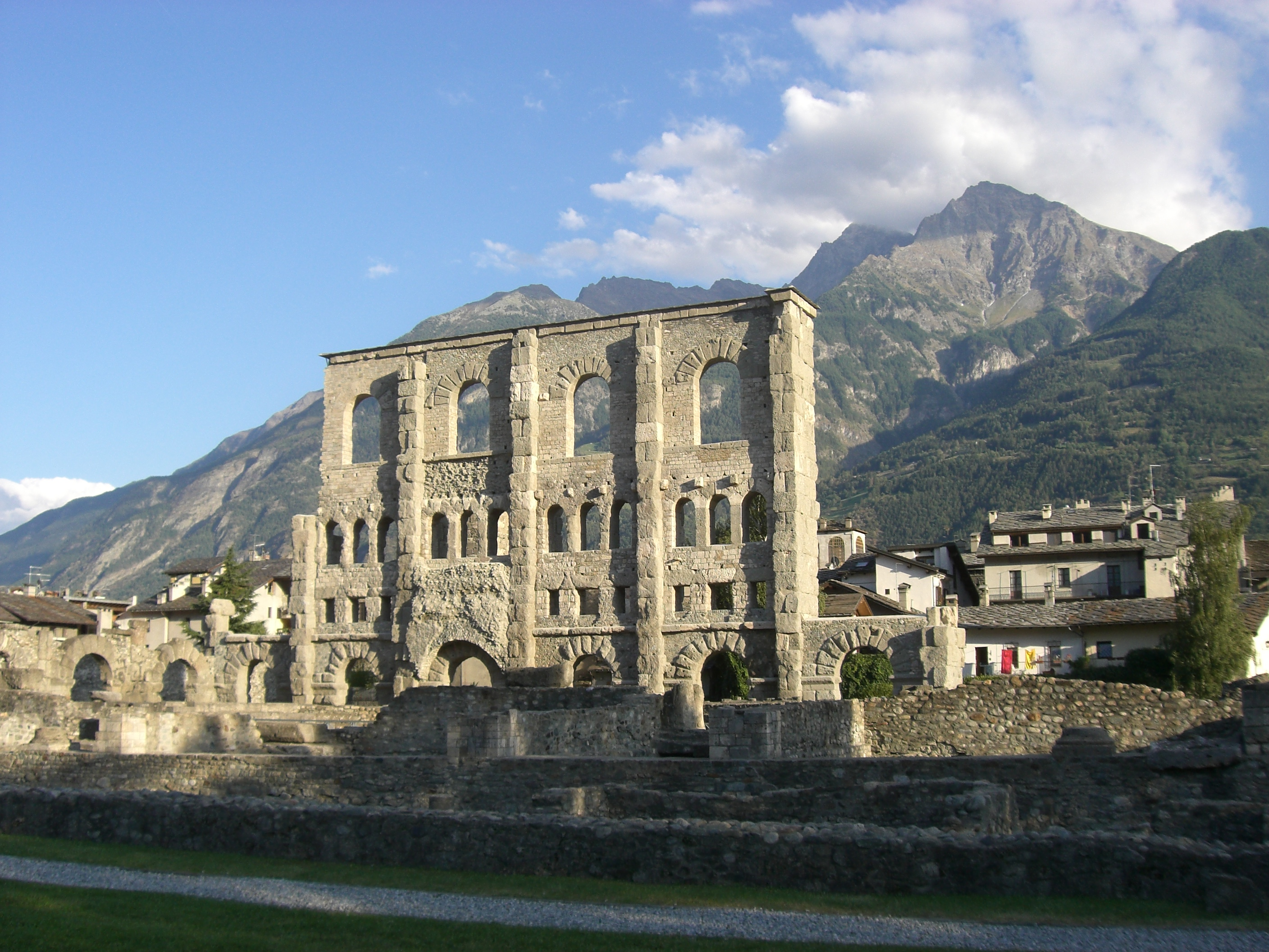 The roman theatre in Aosta/Aoste (Italy)